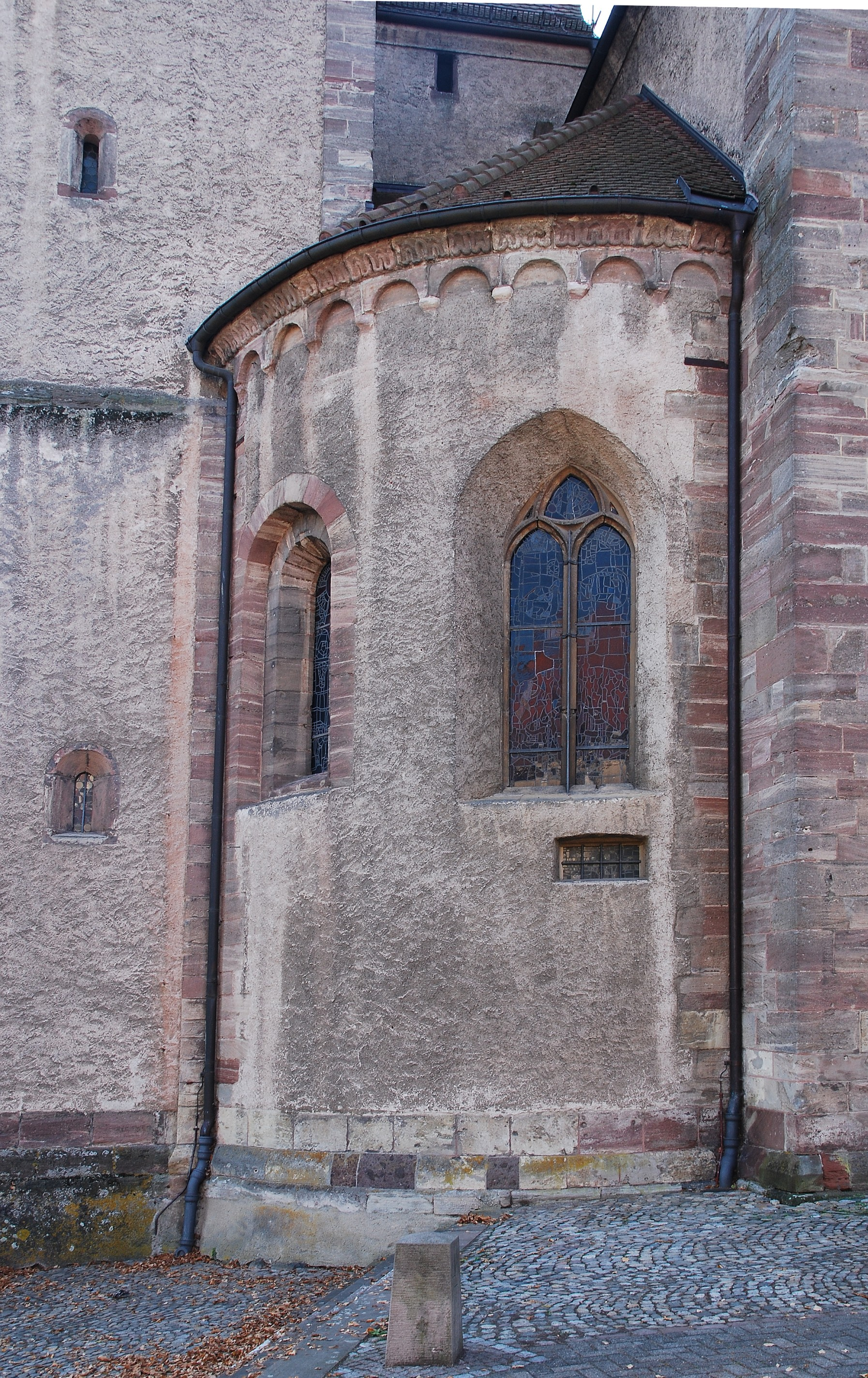 Breisach Minster conch